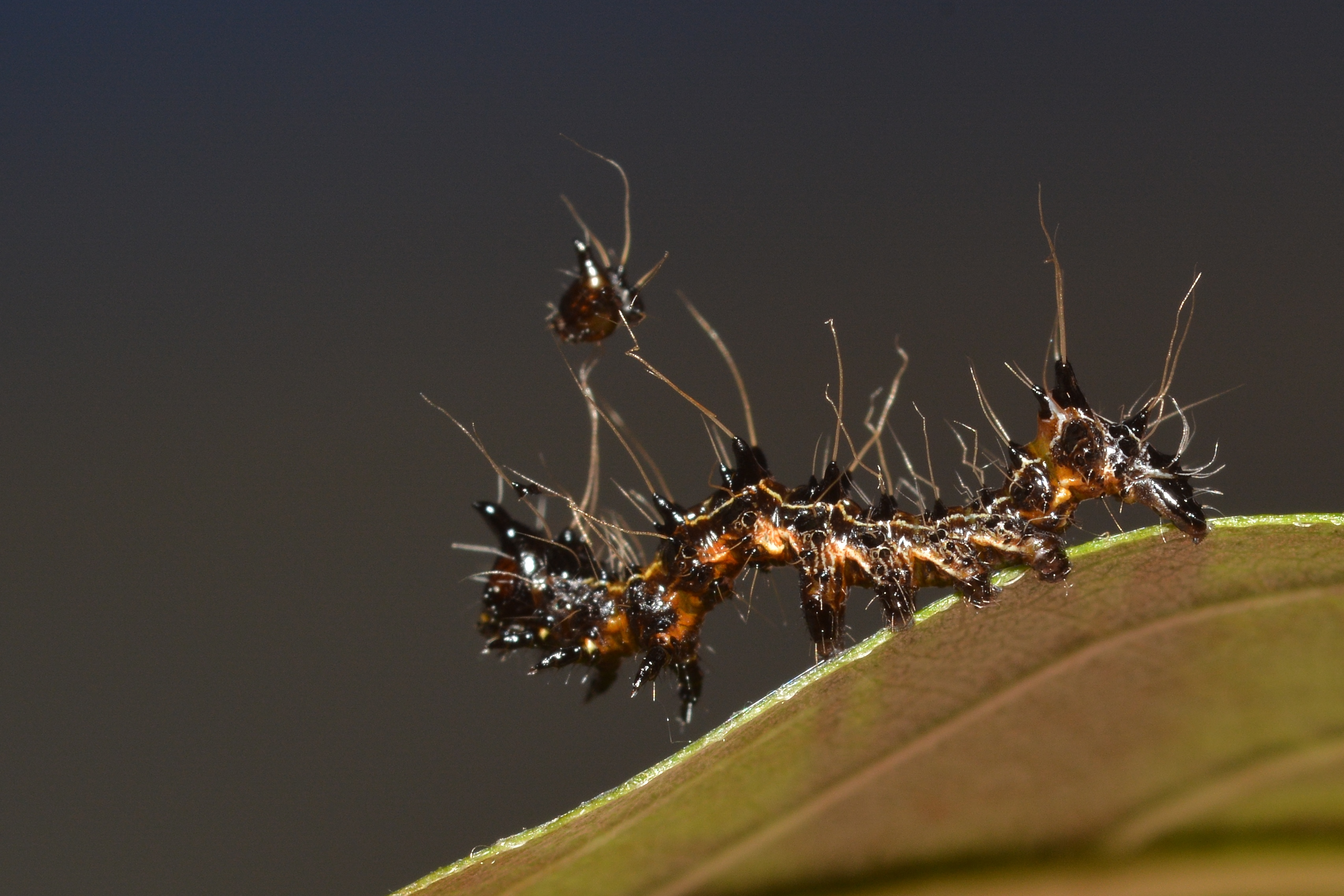 Mothing at Robertsville State Park in Franklin County, Missouri on 7/27/19 This caterpillar was brought to the event from Sullivan, Missouri by Eva Wiedeman. I asked what this caterpillar was doing with what looked like a body part dangling above and Teá Kesting-Handly remarked, "They actually wear their old head capsules as they grow to frighten off predators." Patrick Carney, another friend on Facebook, remarked, "Yeah, if you 'annoy' one of these caterpillars it’ll wave the old head capsules at you."